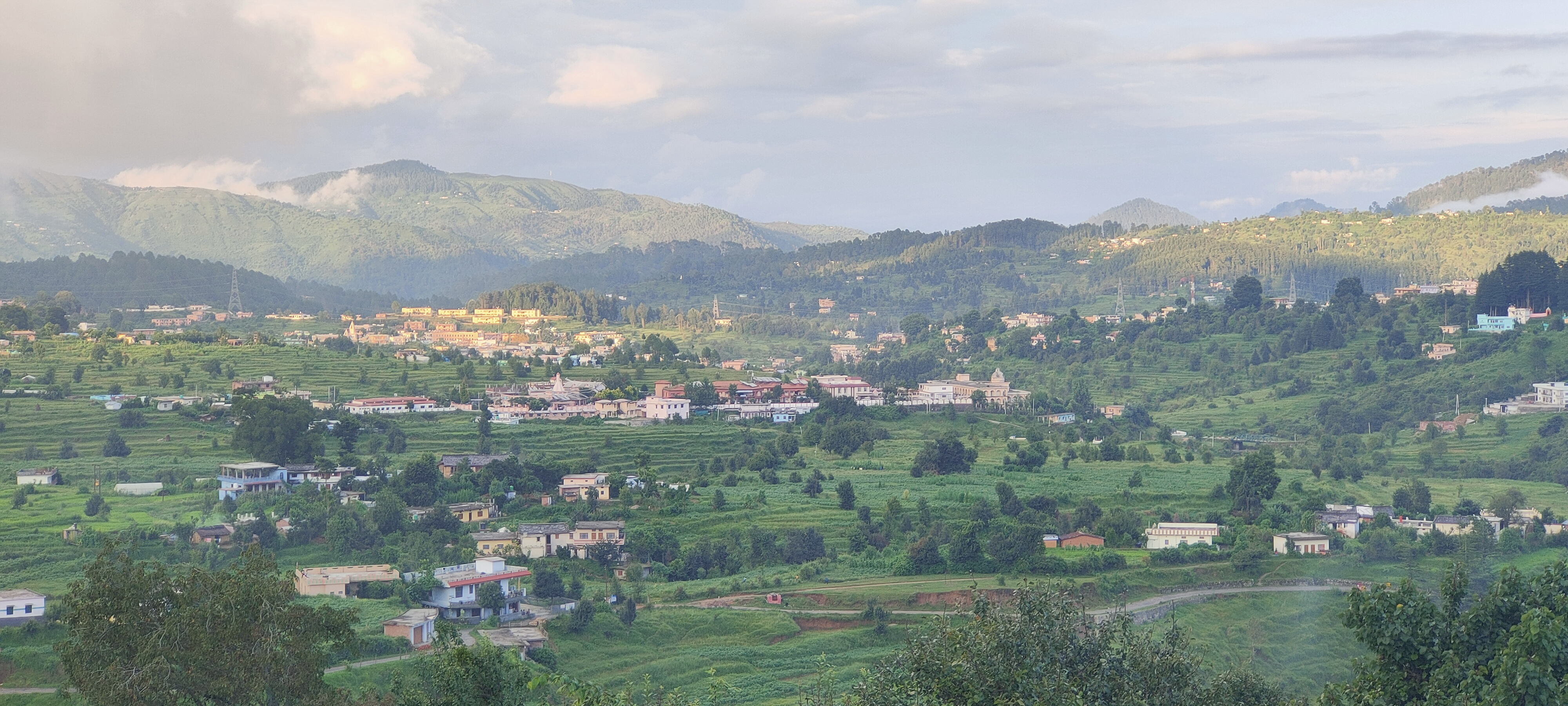 Landscape view of Champawat town of Champawat district from indian state of Uttarakhand